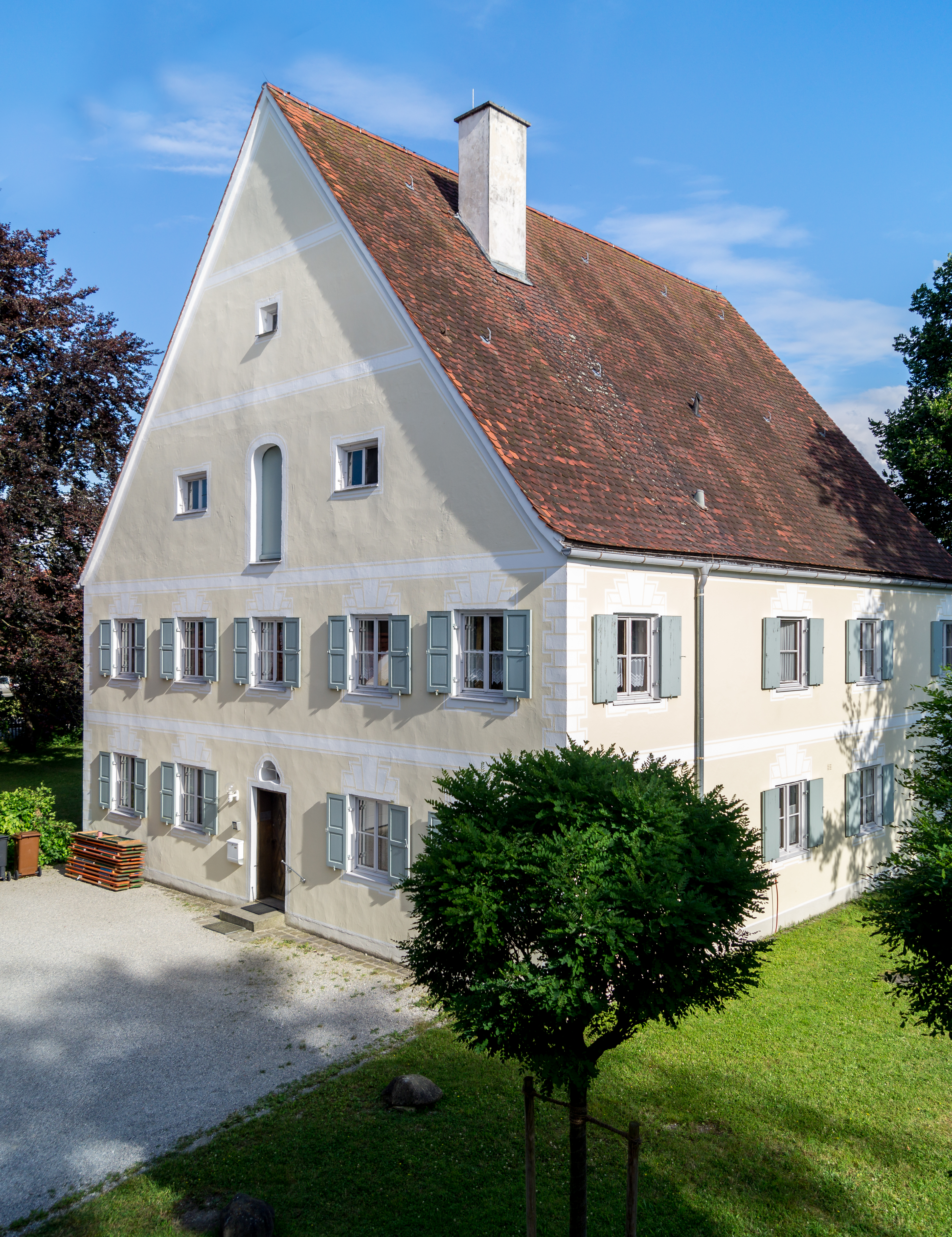 Rectory in Iffeldorf, Upper Bavaria, Germany. View from north-west.